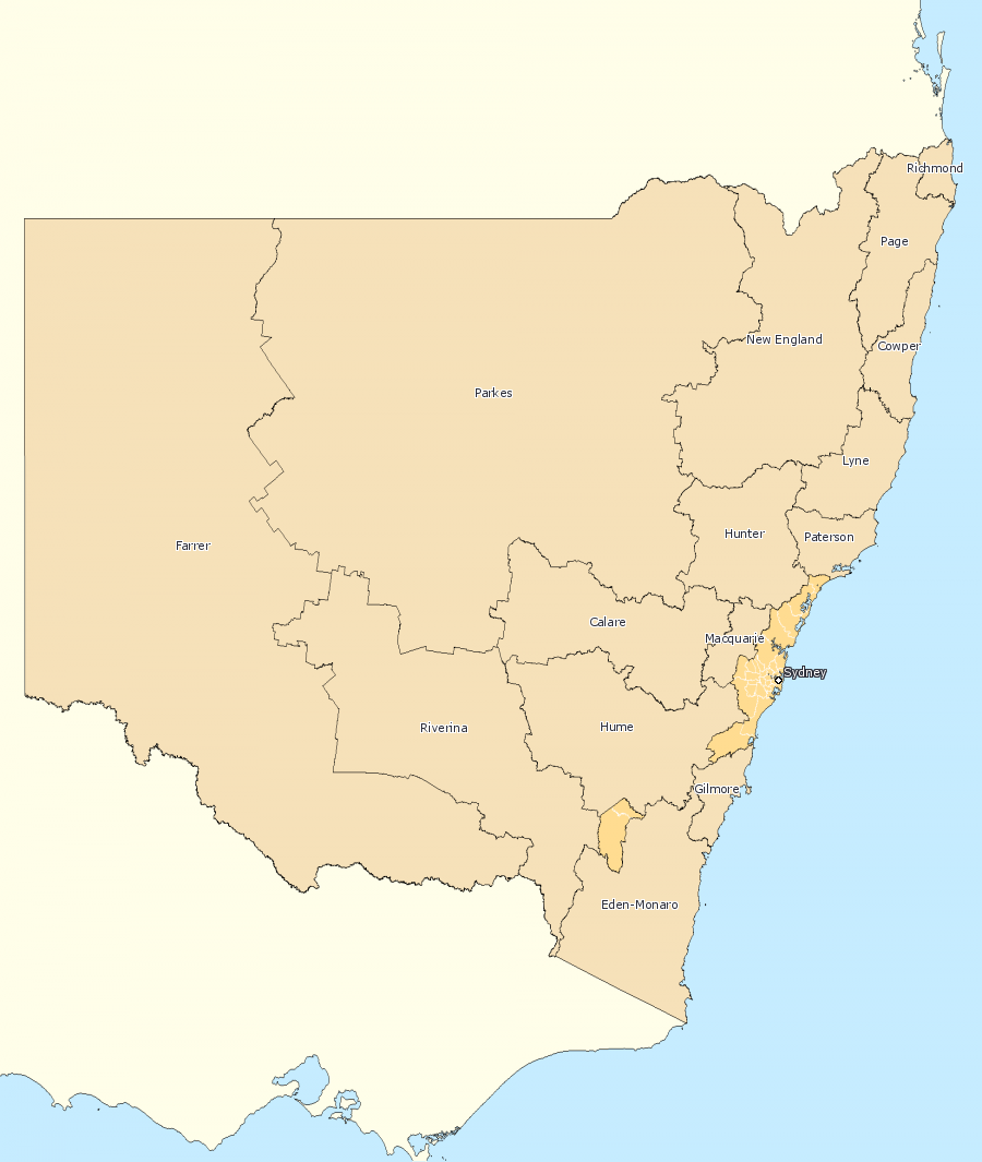 This image incorporates data that is: © Commonwealth of Australia (Australian Electoral Commission) 2009 Rest of New South Wales divisions overview 2010